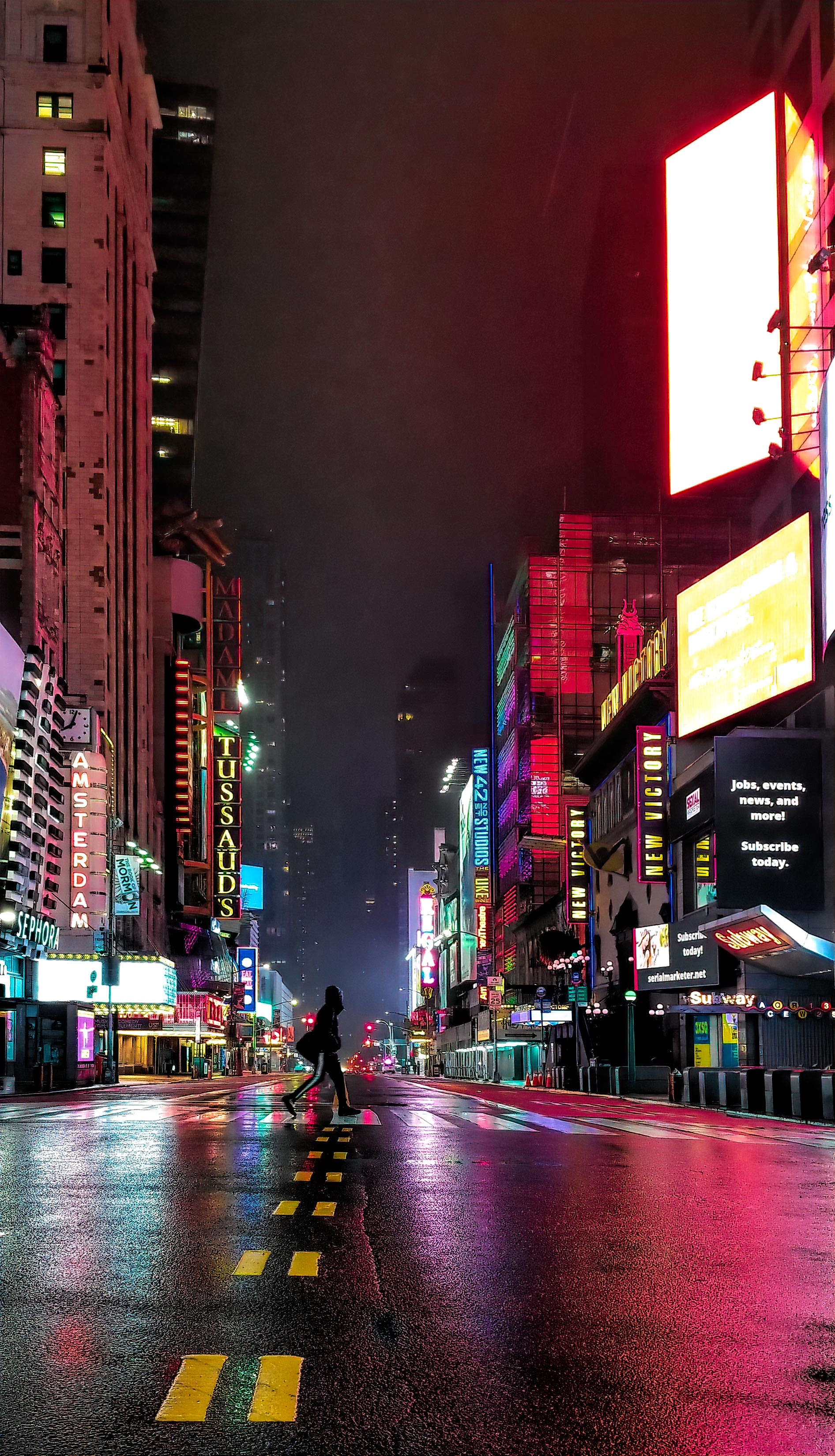 A photo taken at approximately 8 PM on Saturday, March 2020 looking down 42nd street